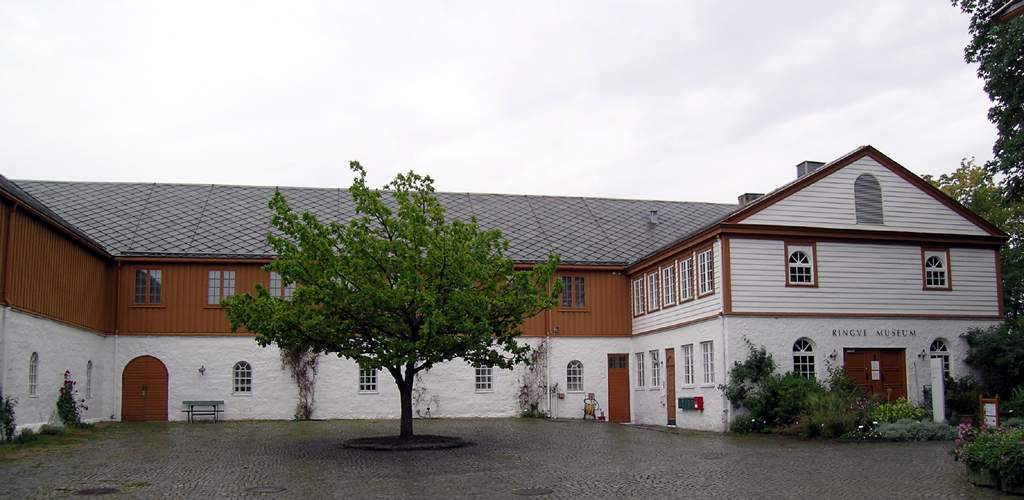 Ringve gård, Trondheim, Norway. The stable. Protected by law 1941.